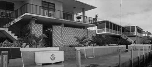 Aquarius On-Shore Operations